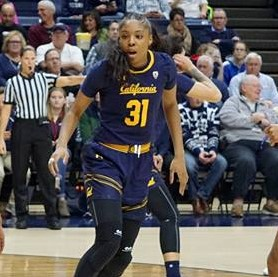 Kristine Anigwe at UConn vs Cal game